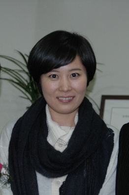 famous South Korean actress Moon Sori